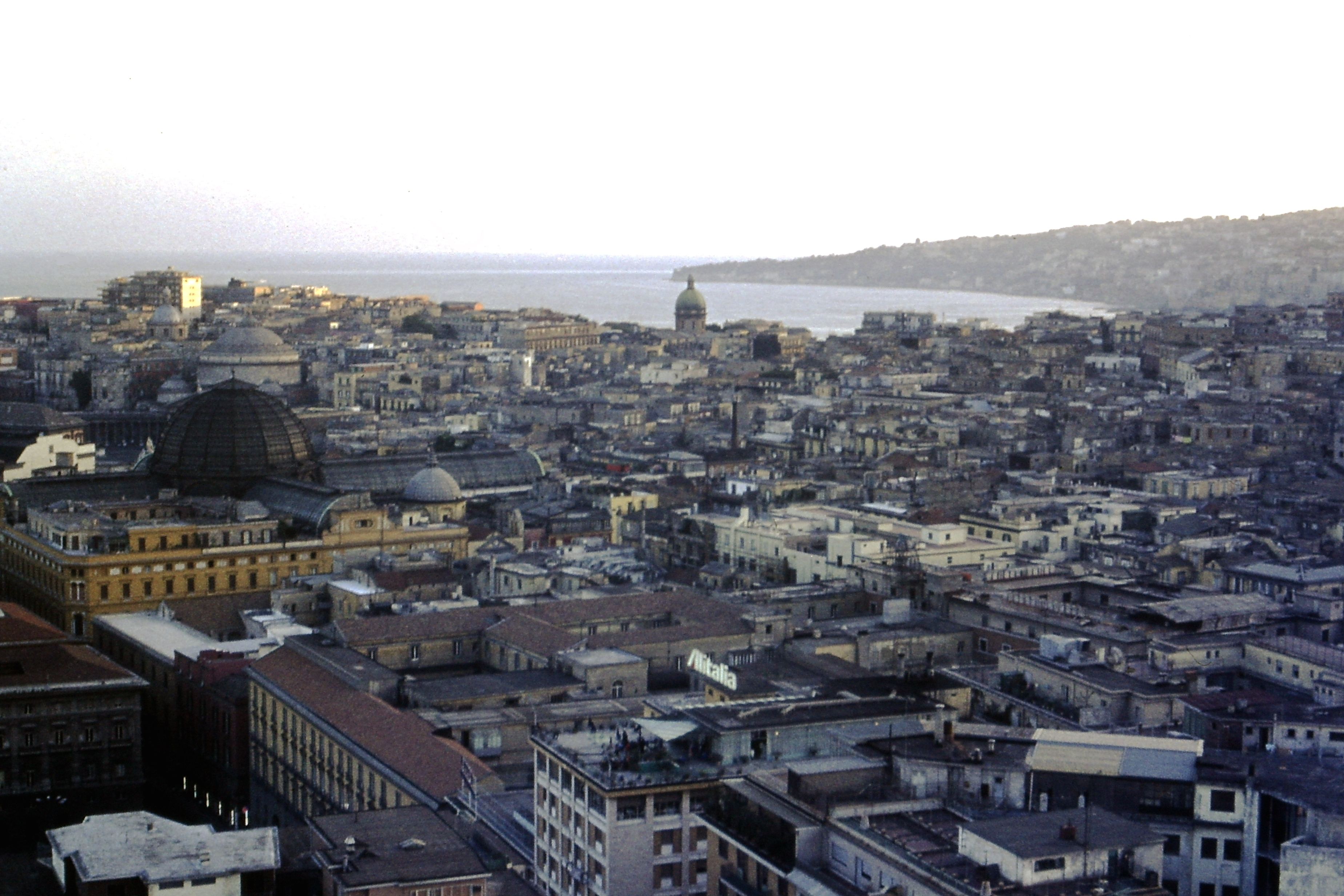 Naples - Galleria Umberto I, Basilica di San Francesco di Paola and Santa Maria degli Angeli a Pizzofalcone - 1973